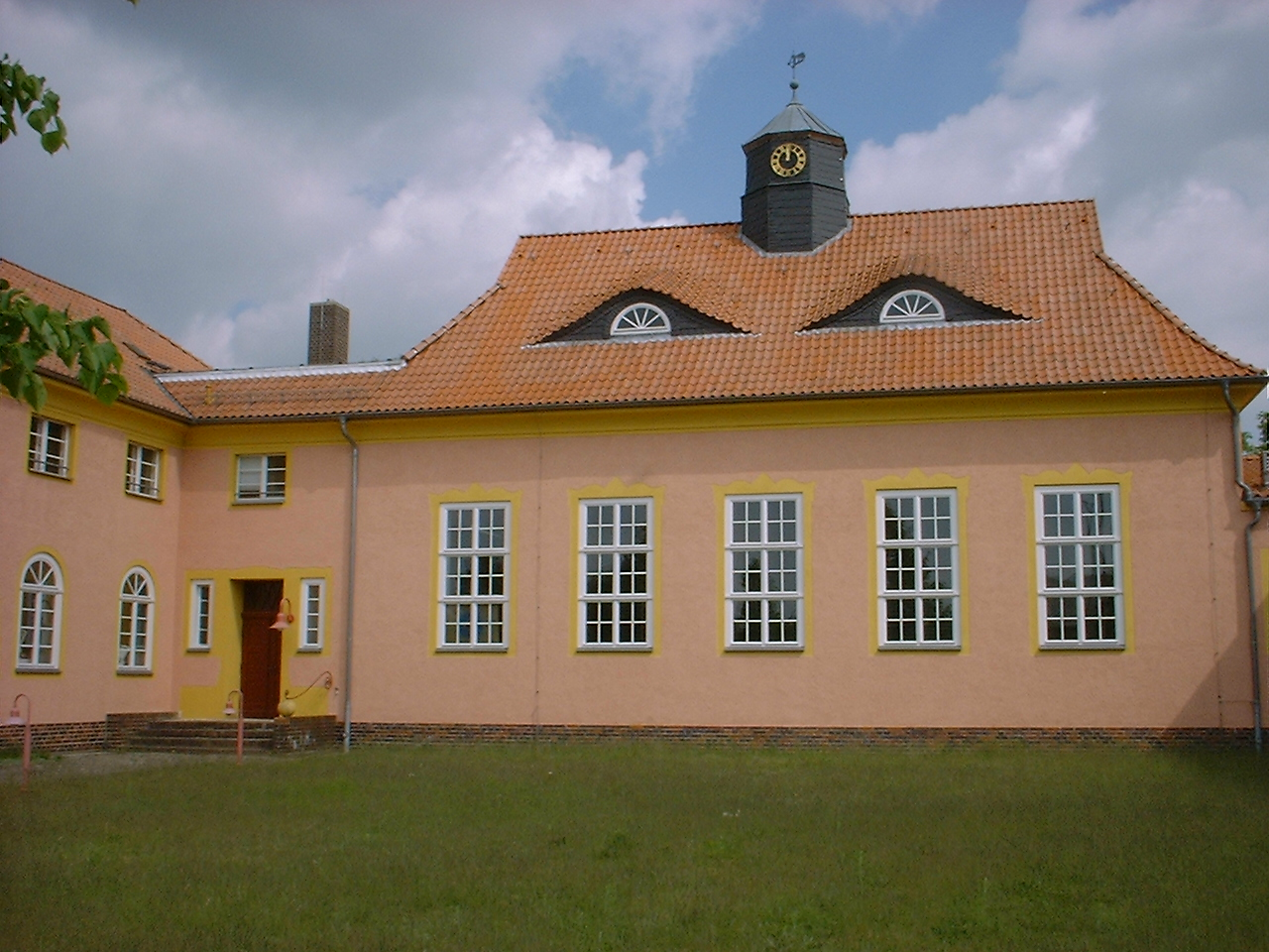 Board of weights and measures in Eberswalde, Germany